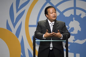 Responding to an invitation from the United Nations 60th Anniversary Committee, Prem Rawat addresses an audience of diplomats, and government and civic leaders at an event held in celebration of the UN's 60th anniversary at the Herbst Theater in San Francisco, where the UN Charter was signed in 1945. (June 2005). Prem Rawat has addressed audiences from a few hundreds to hundreds of thousands since he the age of three. Between 1965, when his addresses were first documented, and until July 2005, he addressed audiences at 2,280 events around the world. Between January 2004 and June 2005 alone, he delivered 117 addresses in Asia, Europe and North America.